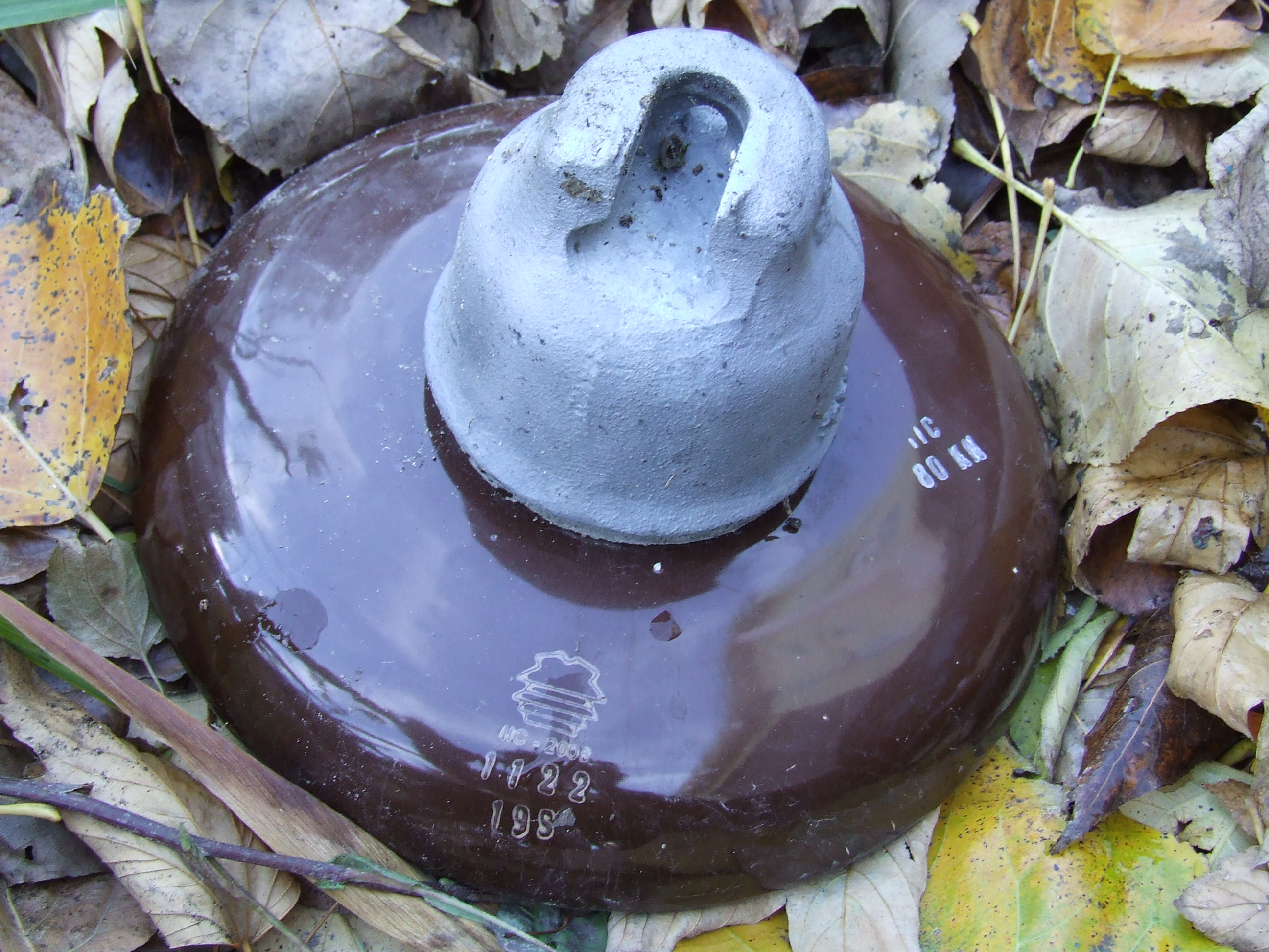 110 kV ceramic insulator (old one)